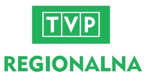 Alternative logo of TVP Regionalna